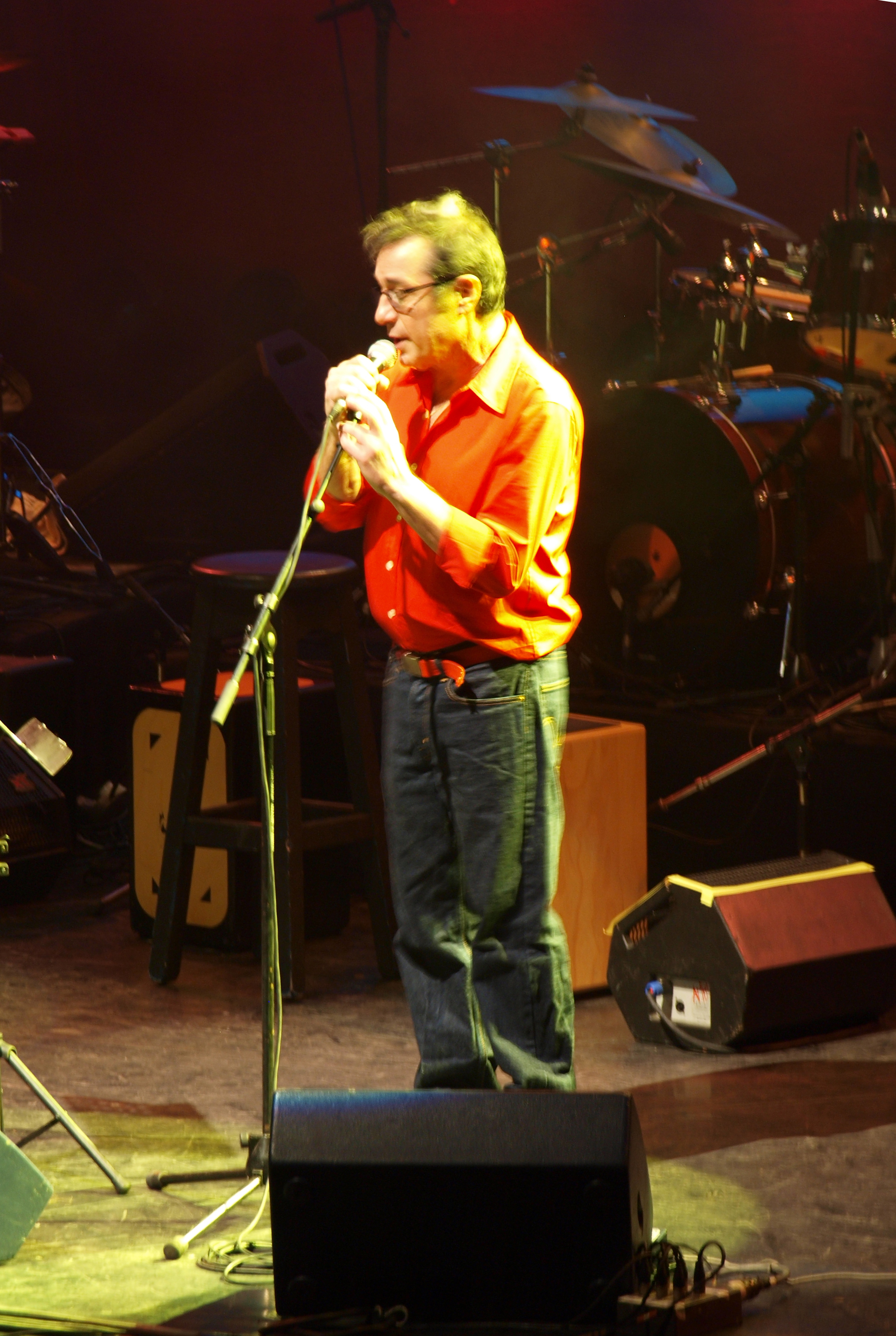 Yonatan Gefen In David Broza's Show, Tel Aviv